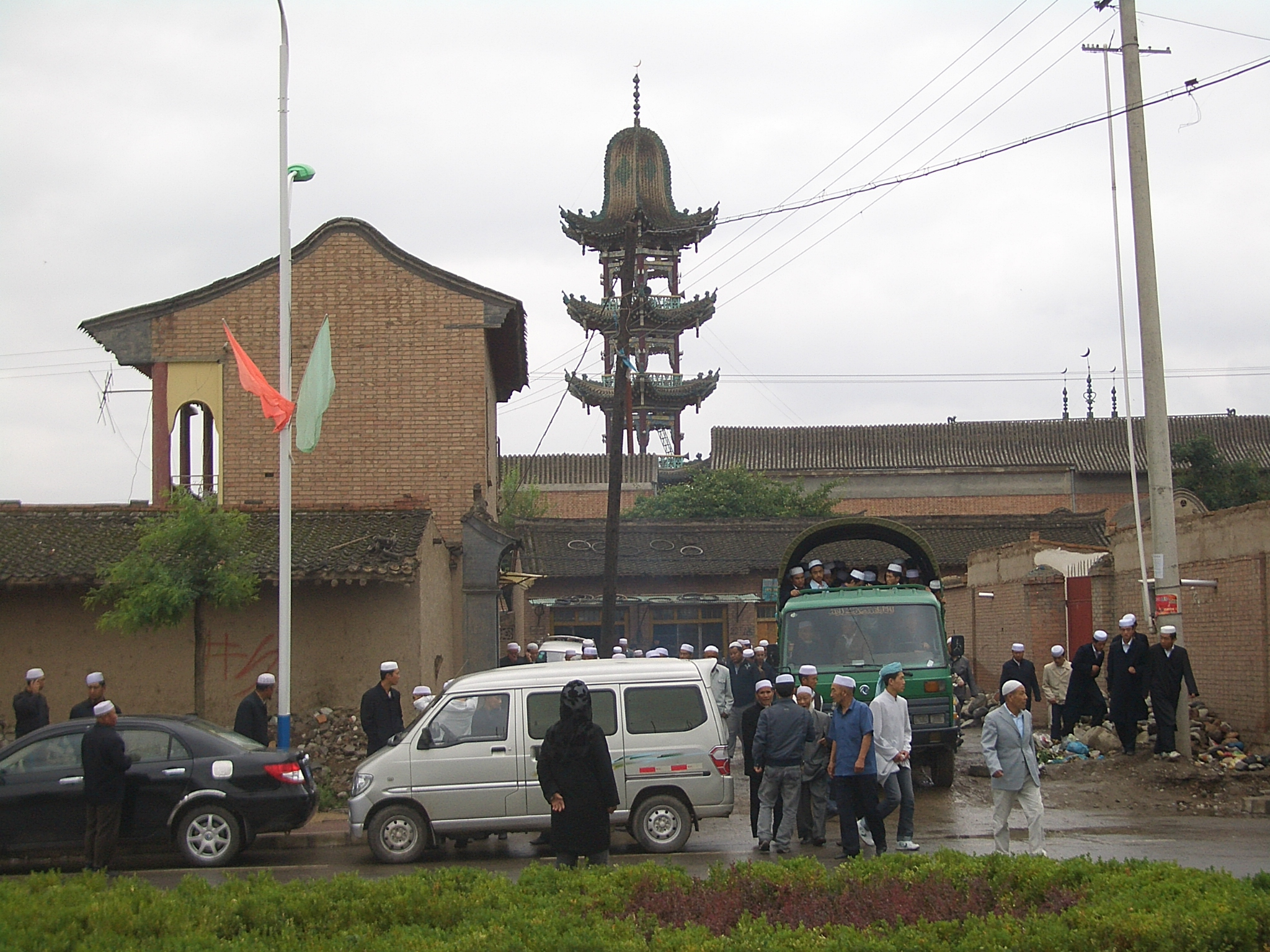 Worshippers leaving a small mosque in the southwest of Linxia City, just a block or two from the Daxia River esplanade and Xin Xi Lu